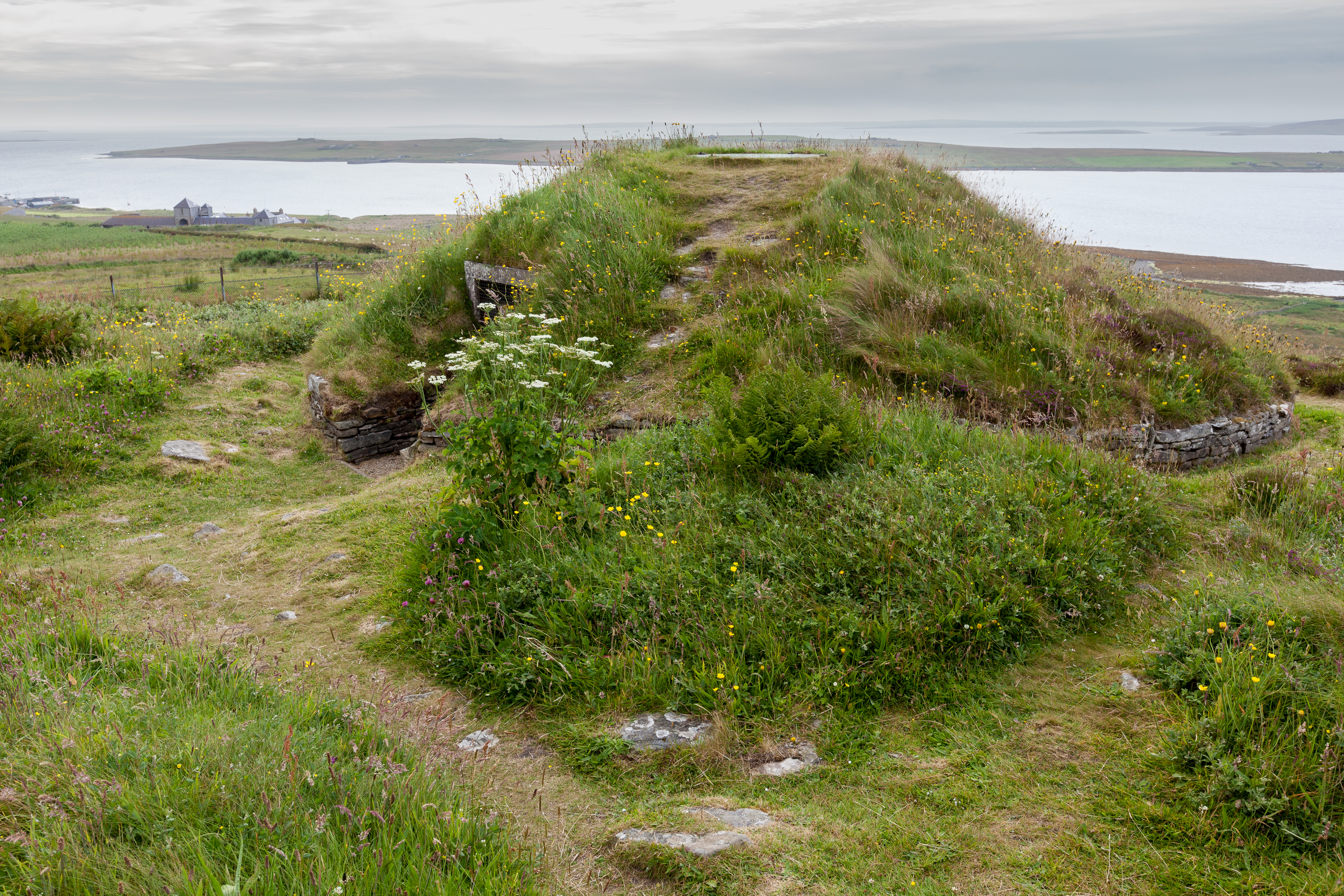 Taversöe Tuick Chambered Cairn, Rousay (exterior) Wikidata has entry Q1558256 with data related to this item.